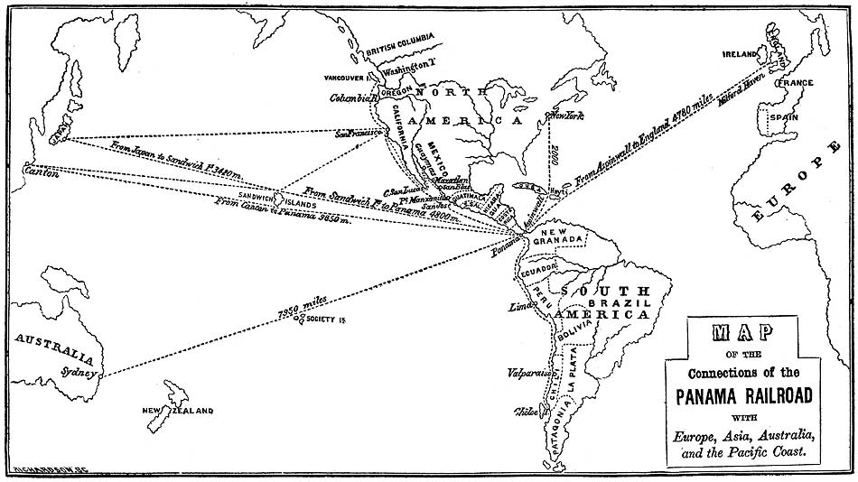 Map of the Panama Railroad as it relates to world routes, 1861. From "Illustrated history of the Panama Railroad" by Fessenden Nott Otis, Harper & Brothers, New York, 1861 (The Cooper Collections)